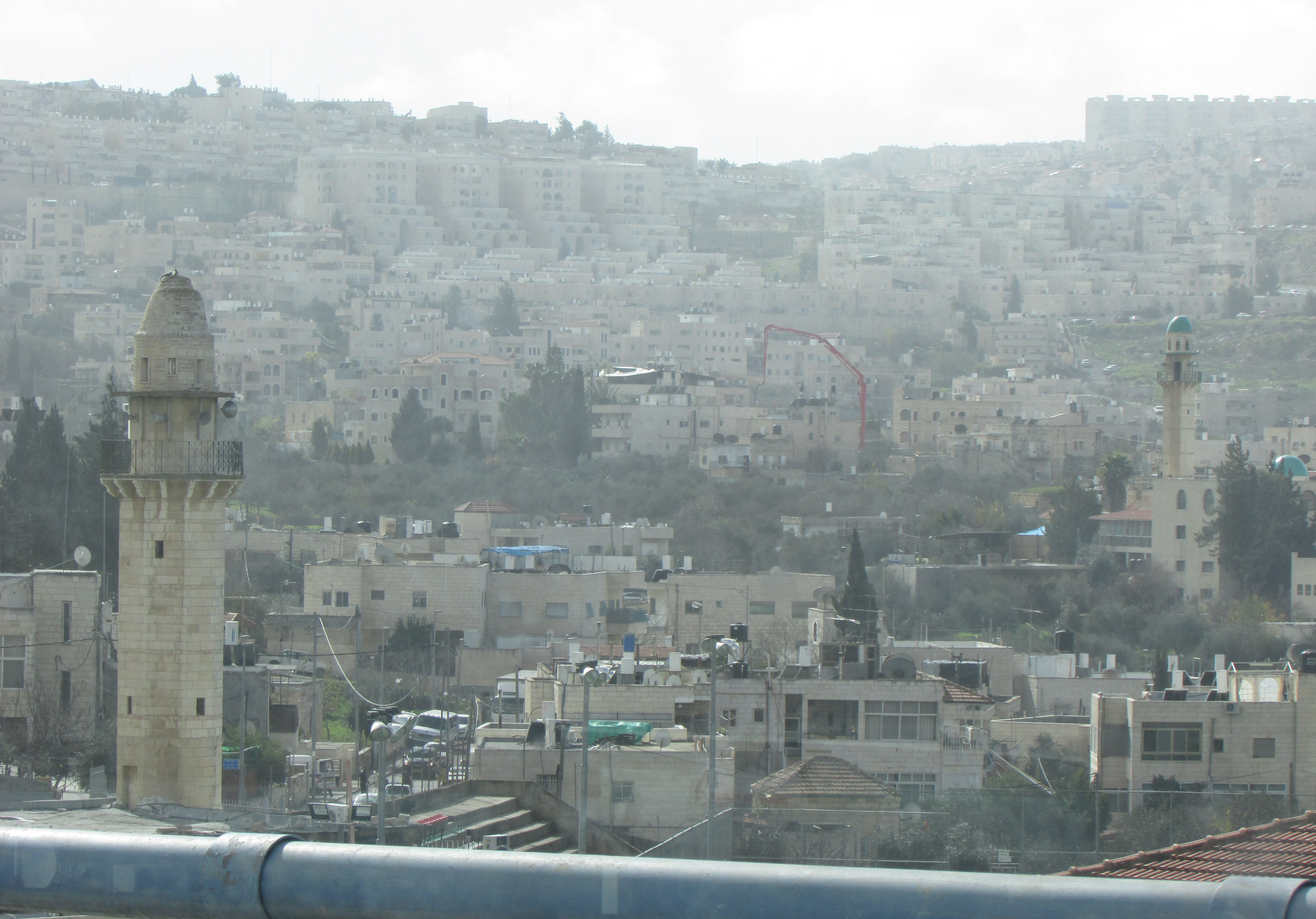 Beit Safafa (low) and Gilo (above) from the Talpiyot industry zone